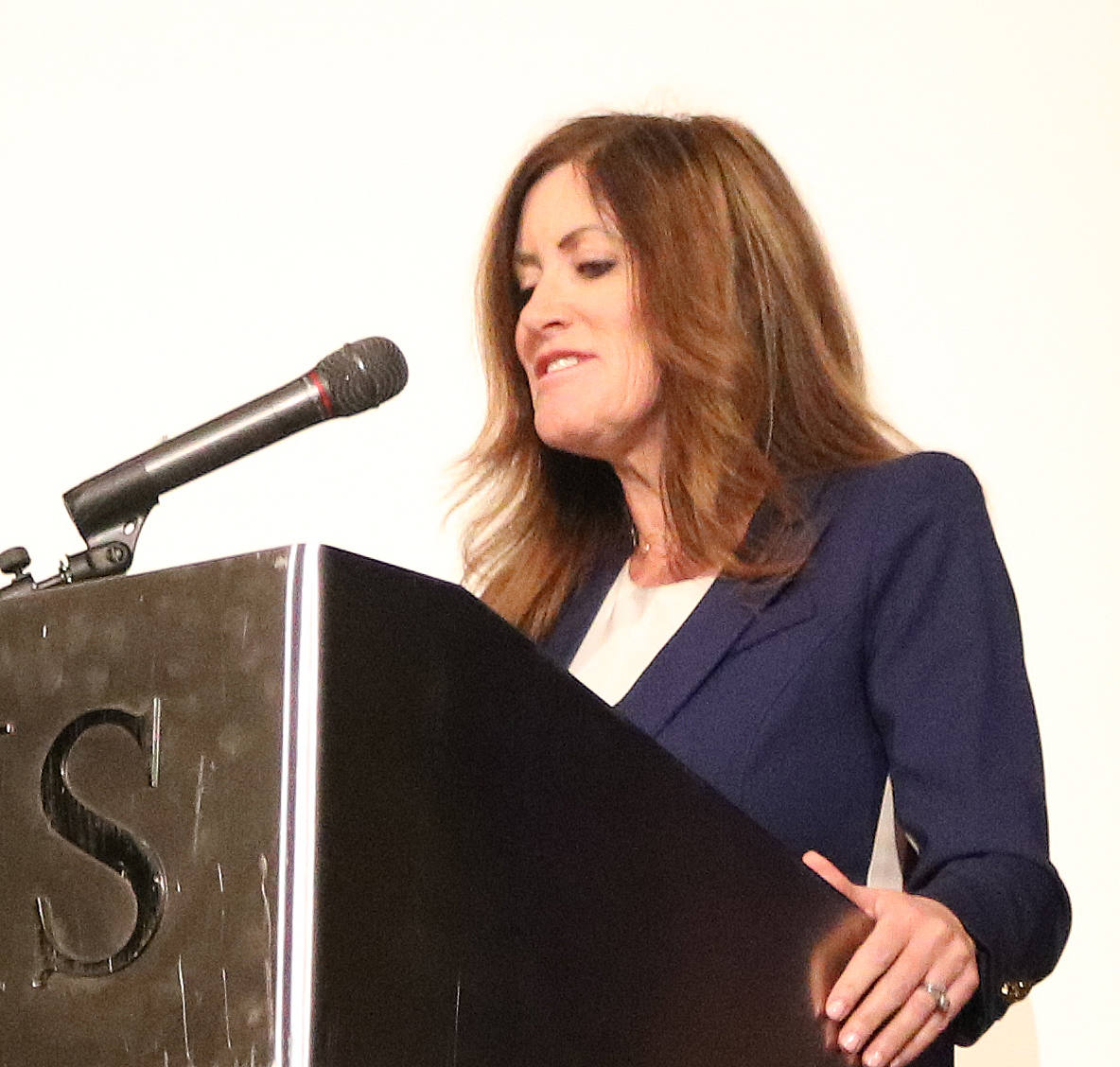 Heidi Ganahl, a politician from Colorado.